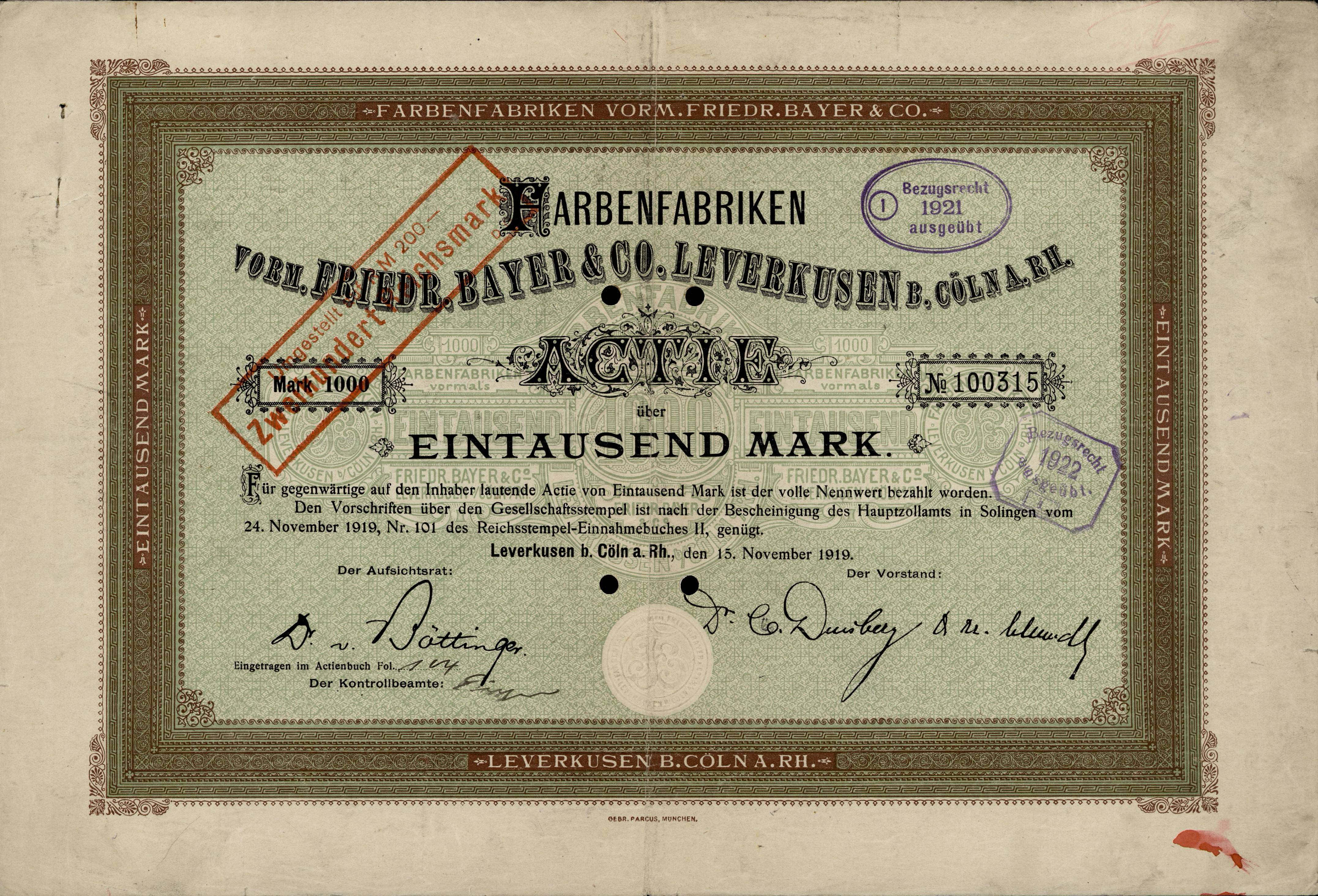 Share of the Farbenfabriken vorm. Friedr. Bayer & Co, issued 15. November 1919 in Leverkusen b. Cöln